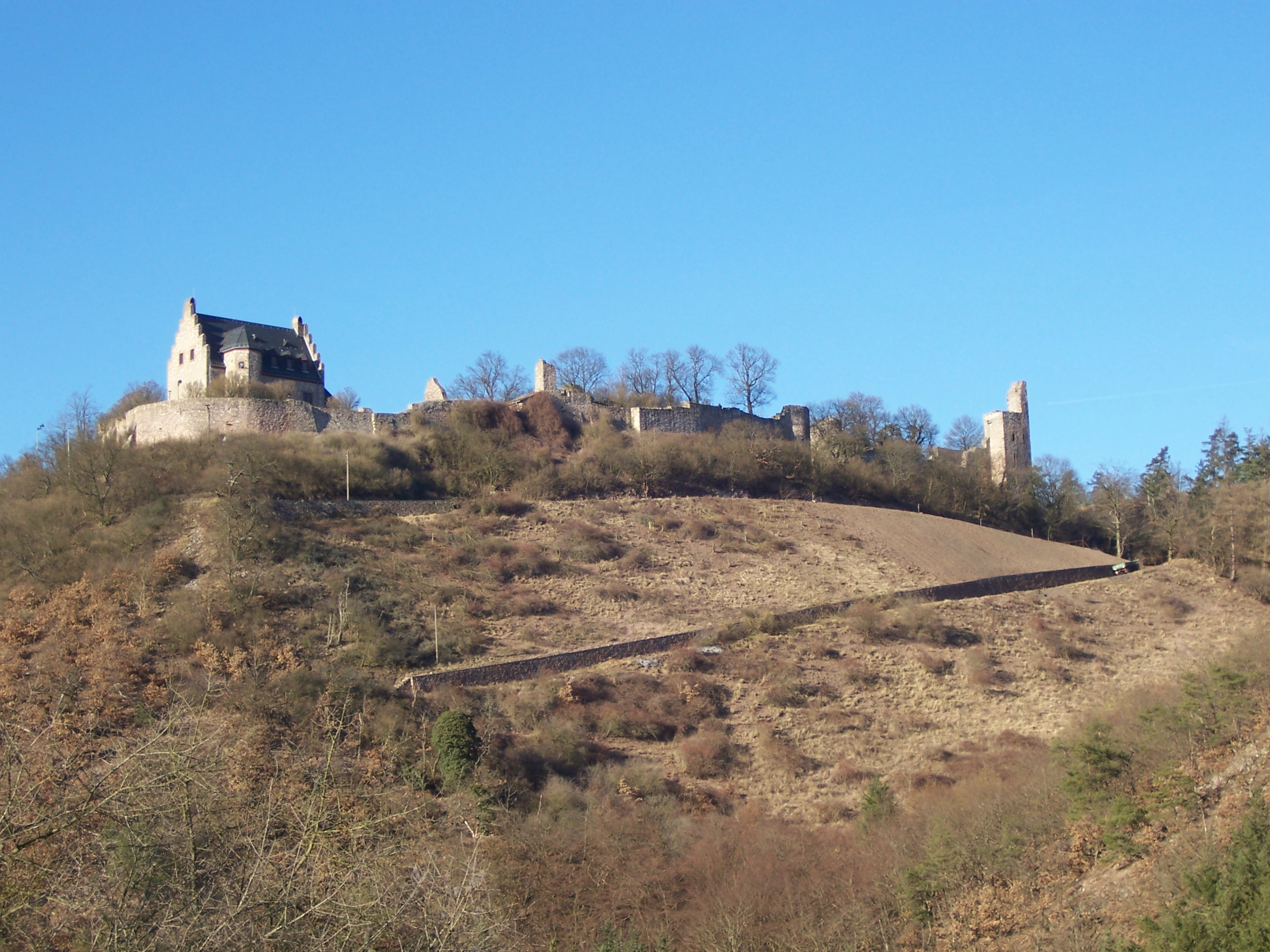 View from the Treuenfels